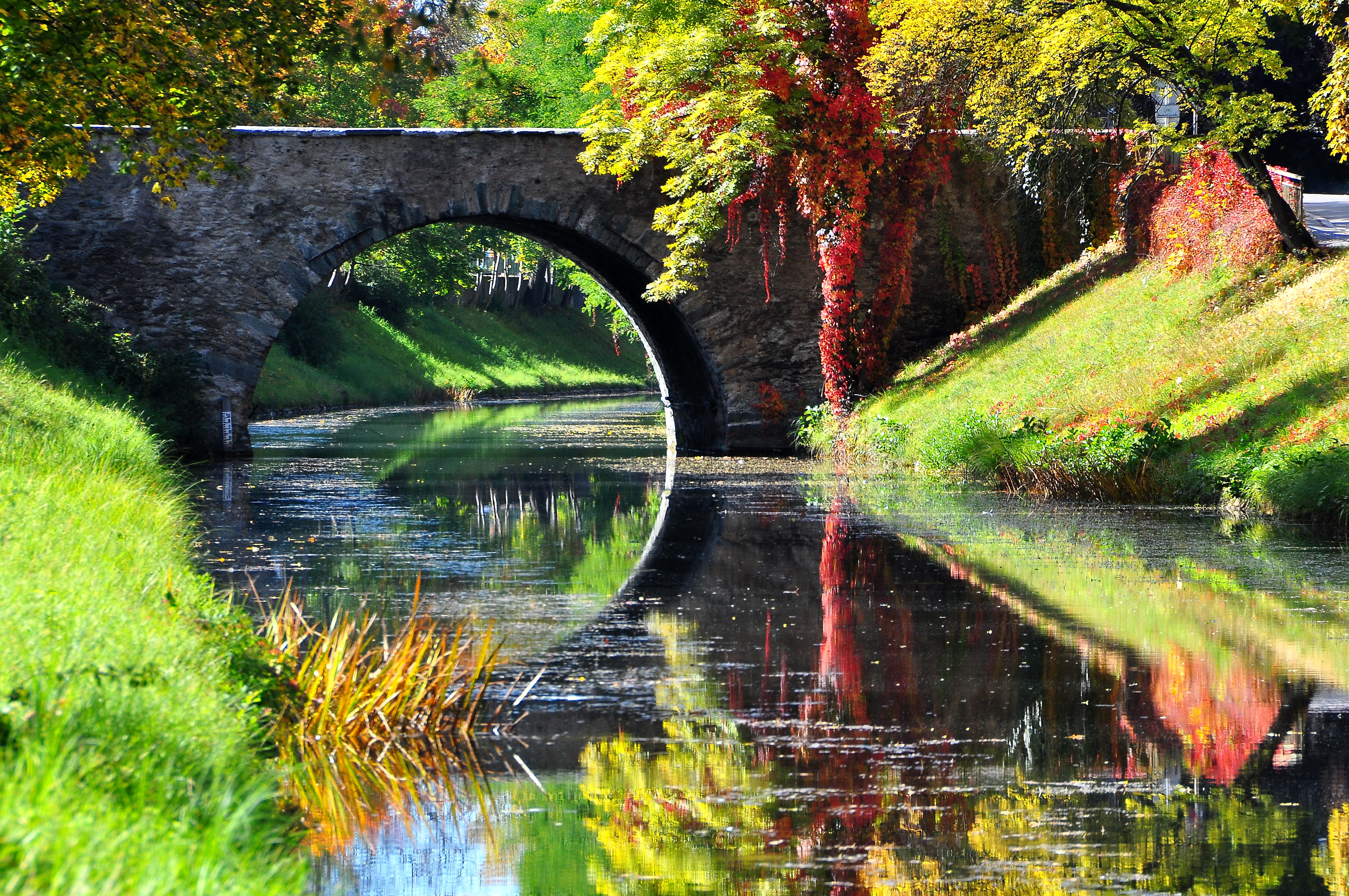 Historic stone bridge across the Lendkanal, 8th district “Villacher Vorstadt”, Klagenfurt on the Lake Woerth, Carinthia, Austria, EU